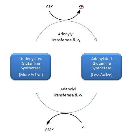 Regulation of glutamine synthetase